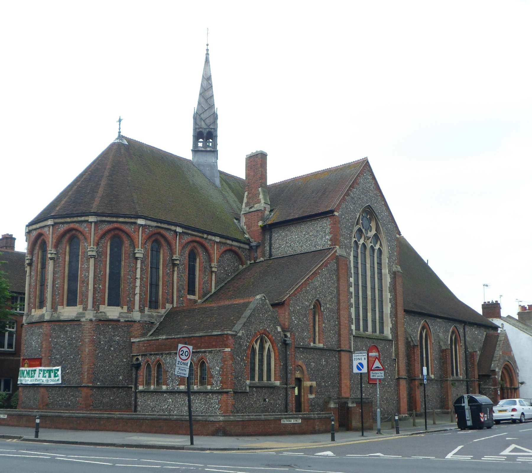 St Barnabas Church, Sackville Road, Hove, City of Brighton and Hove, England. Built in 1882–1883 by John Loughborough Pearson.